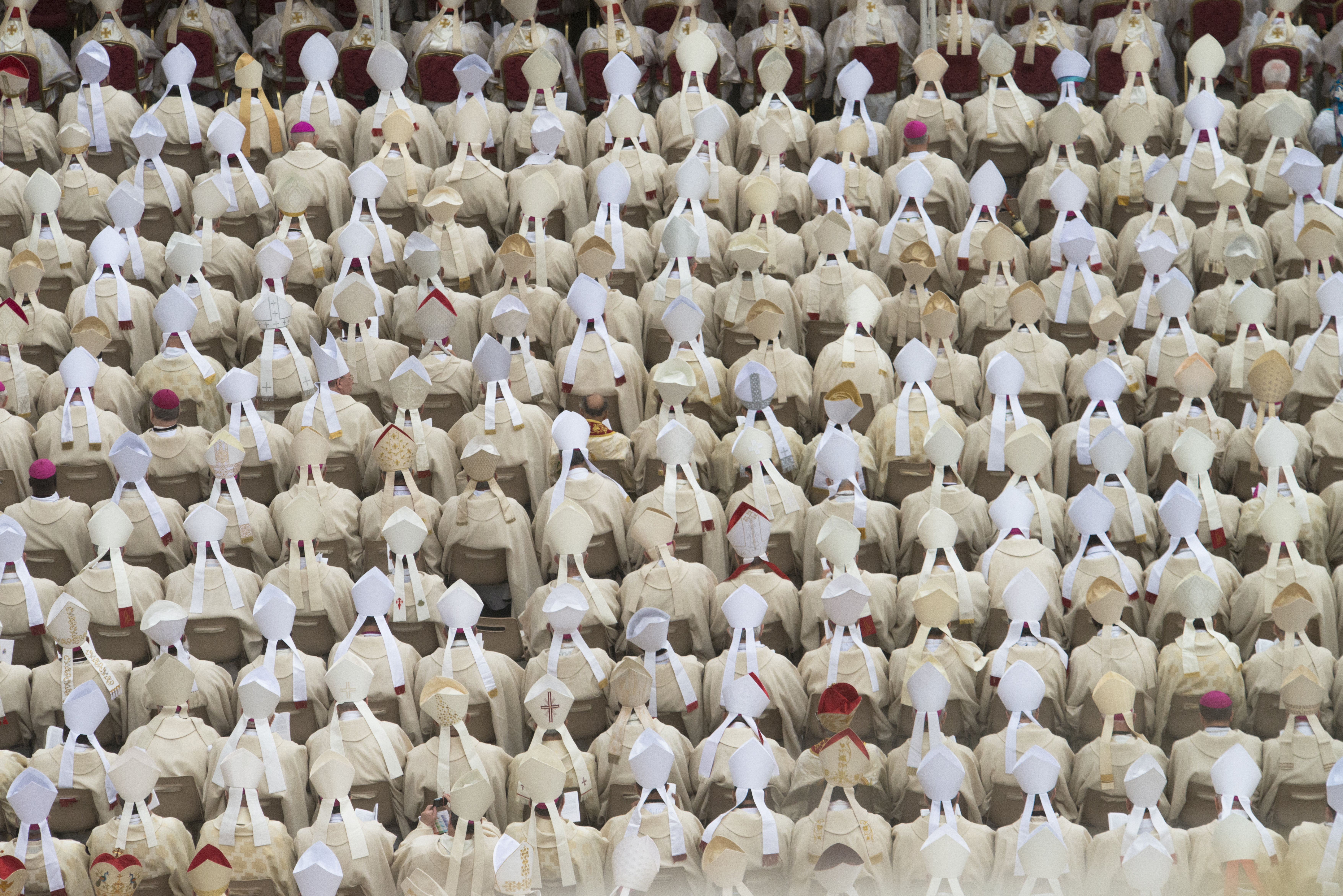 ROME, VATICAN 27 APRIL: The Canonization of Blessed Pope John XXIII and Blessed Pope John Paul II, two Popes from the 20th Century.